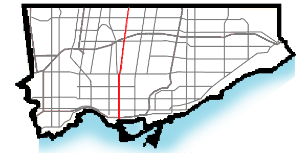 map of Bathurst Street (Toronto)